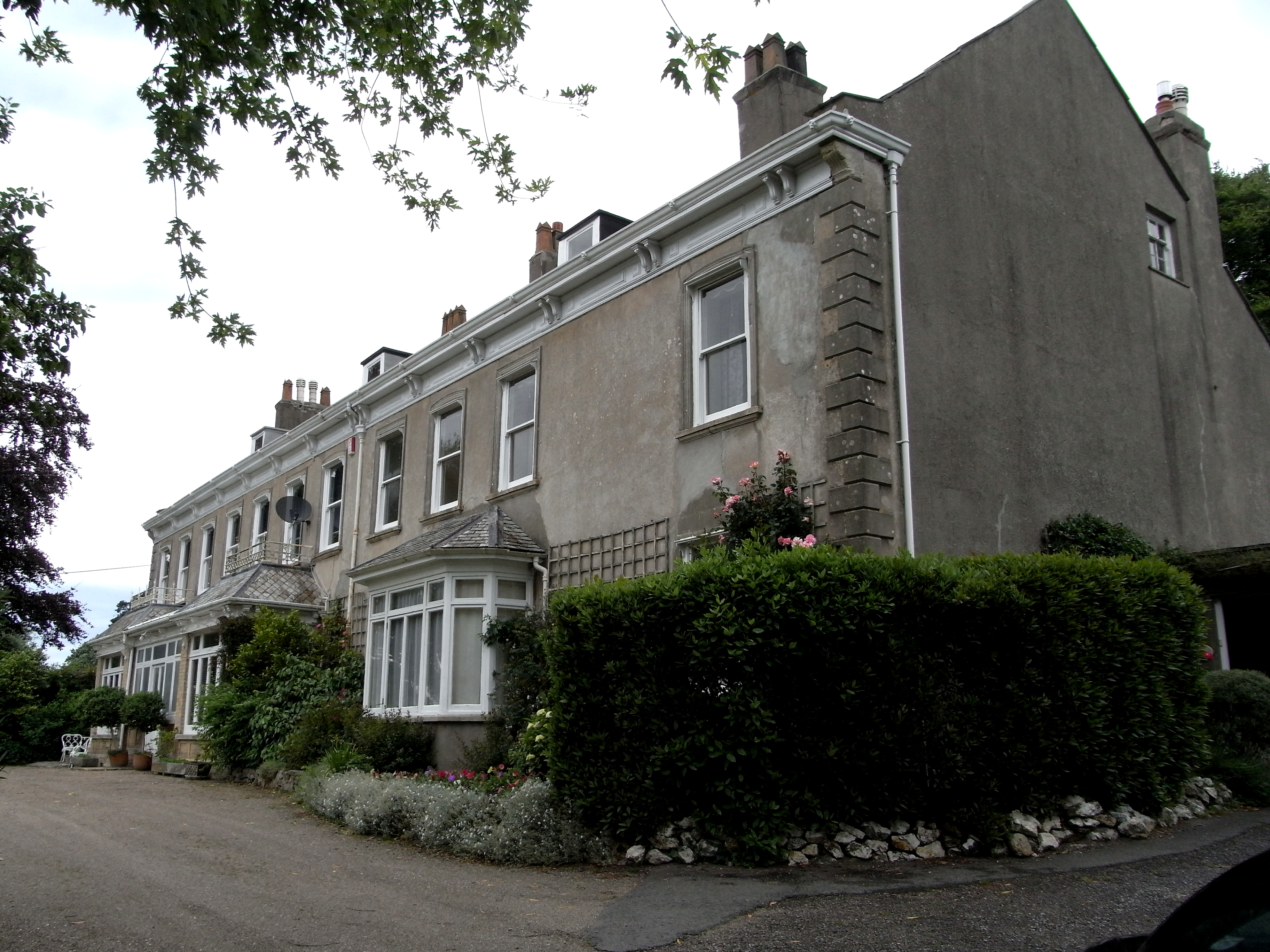 New Raleigh House, in the parish of Pilton, Devon. Built after 1745 by Nicholas III Hooper, son of Sir Nicholas II Hooper (1654-1731) of Fullabrook,[3] Braunton[4] and Raleigh, Pilton in Devon, was a lawyer who served as Tory Member of Parliament for Barnstaple 1695-1715. The great manor house of the Chichester family, in ruins in 1745, stood immediately below it, now the site of the North Devon District Hospital.